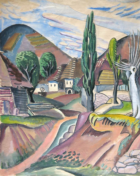 Tŭri Pôle Landscape, watercolor & conte crayon on paper